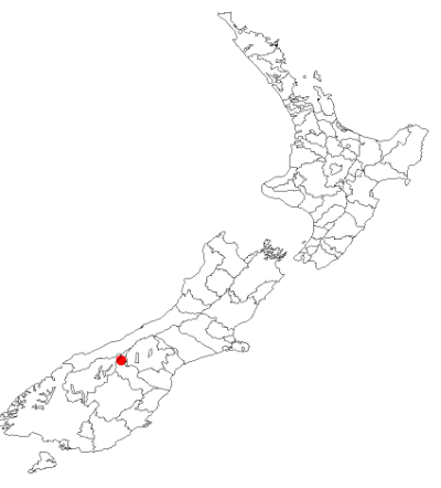 Carmichaelia rivulata occurrence data from Australasian Virtual Herbarium downloaded 2 December 2019 using